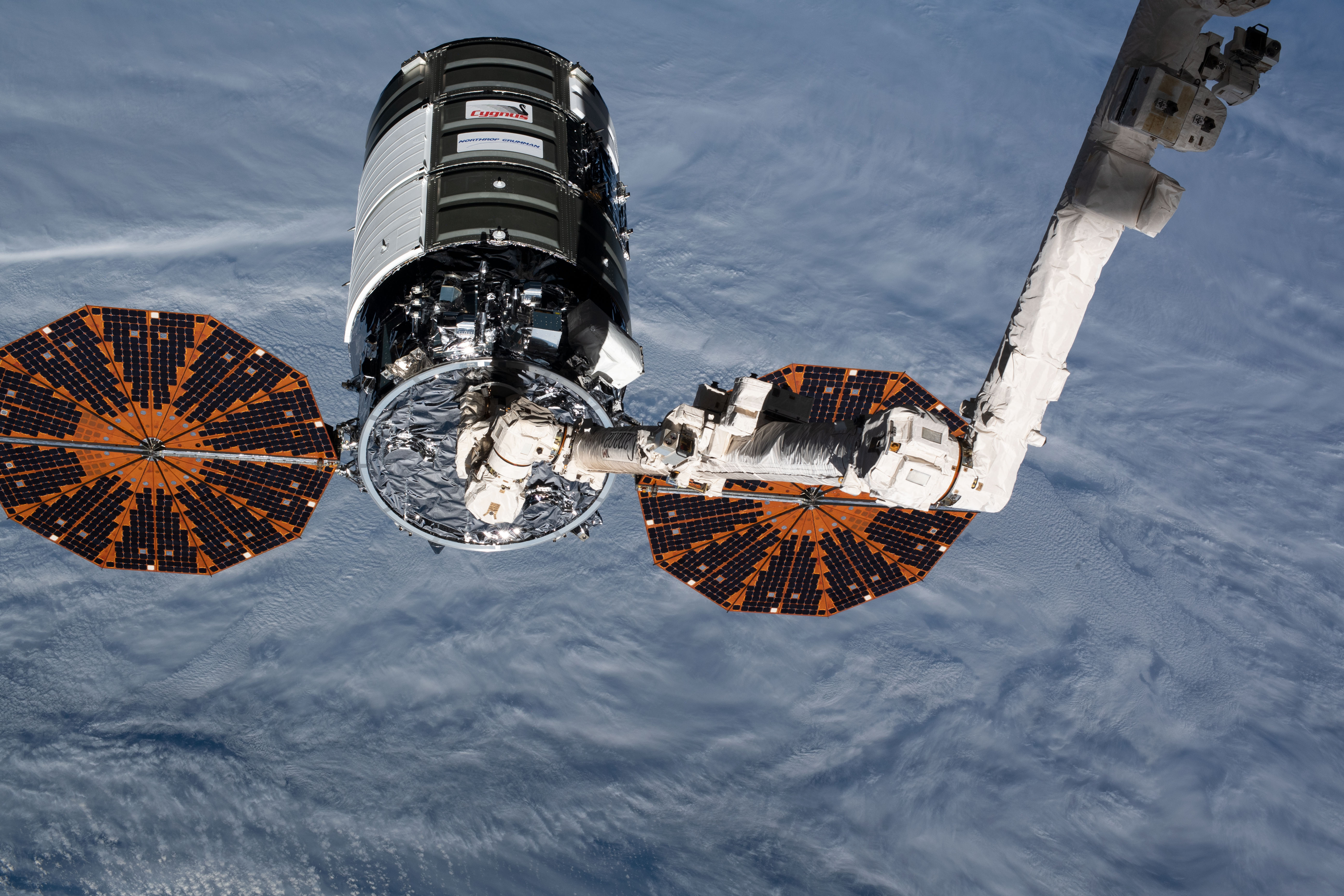 The U.S. Cygnus space freighter is pictured moments after NASA astronaut Jessica Meir, with fellow Flight Engineer Christina Koch as her back up, commanded the Canadarm2 robotic arm to reach out and grapple the 12th resupply ship from Northrop Grumman.